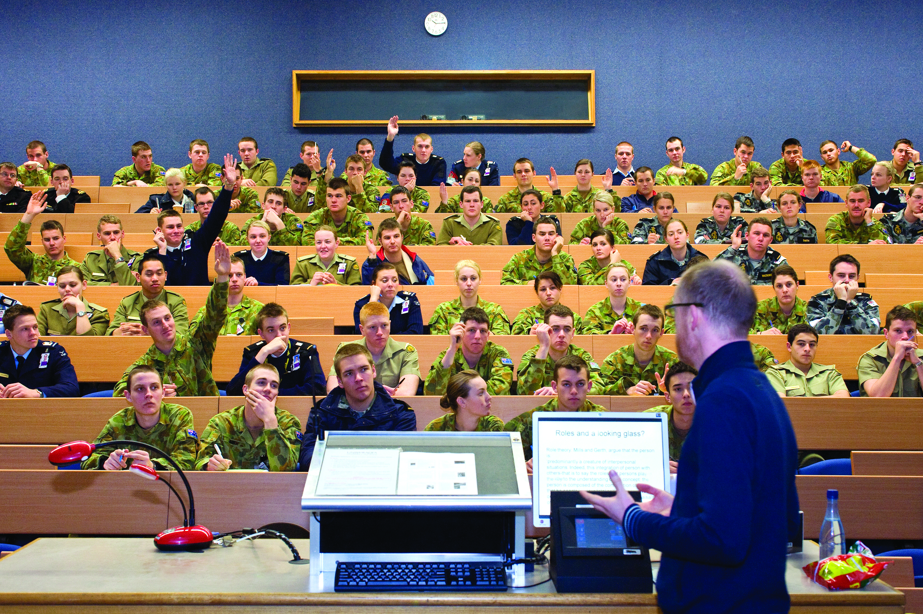 ADFA Lecture Theatres